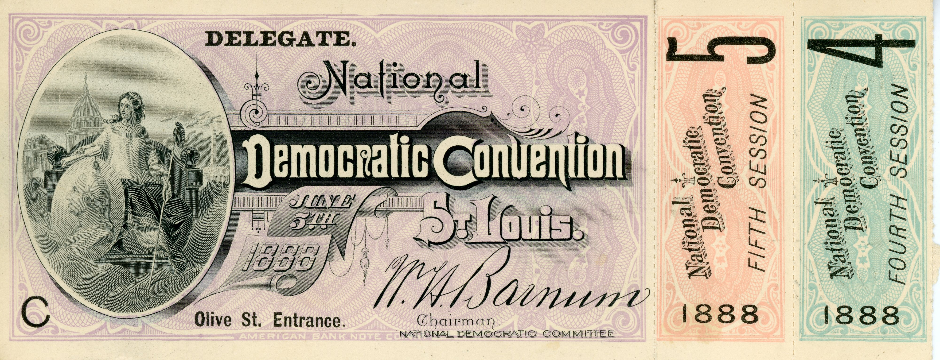 Basil Gordon of Virginia's delegate ticket for the 1888 National Democratic Convention in St. Louis